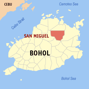 Map of Bohol showing the location of San Miguelo